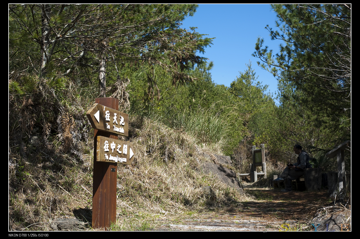 Guanshan Historic Trail, path section between Jhongjhihguan and Tianchih. 中文（台灣）: 關山越嶺古道，這一段路在中之關與天池之間。